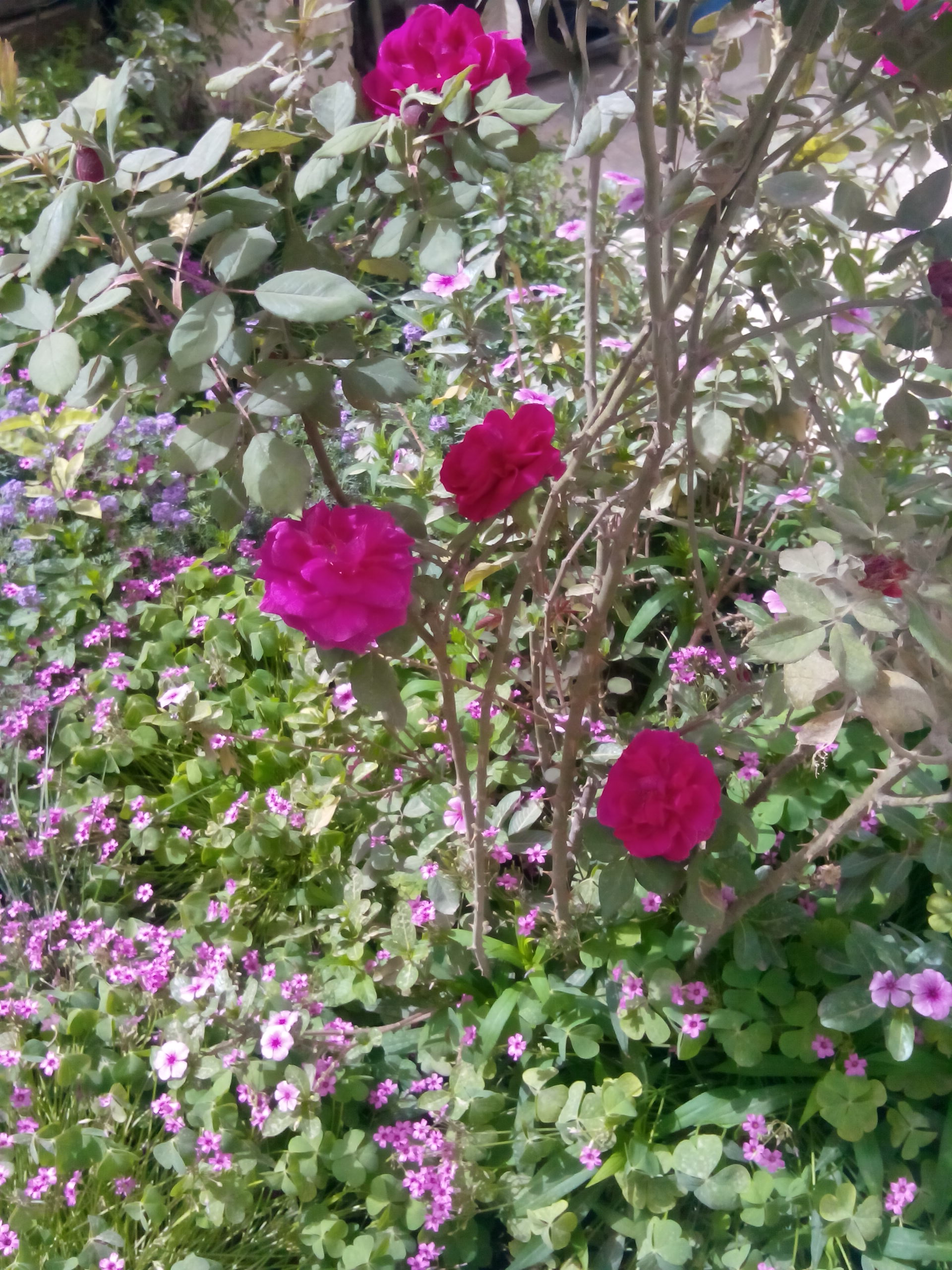 Red flower's in the garden in Baghdad